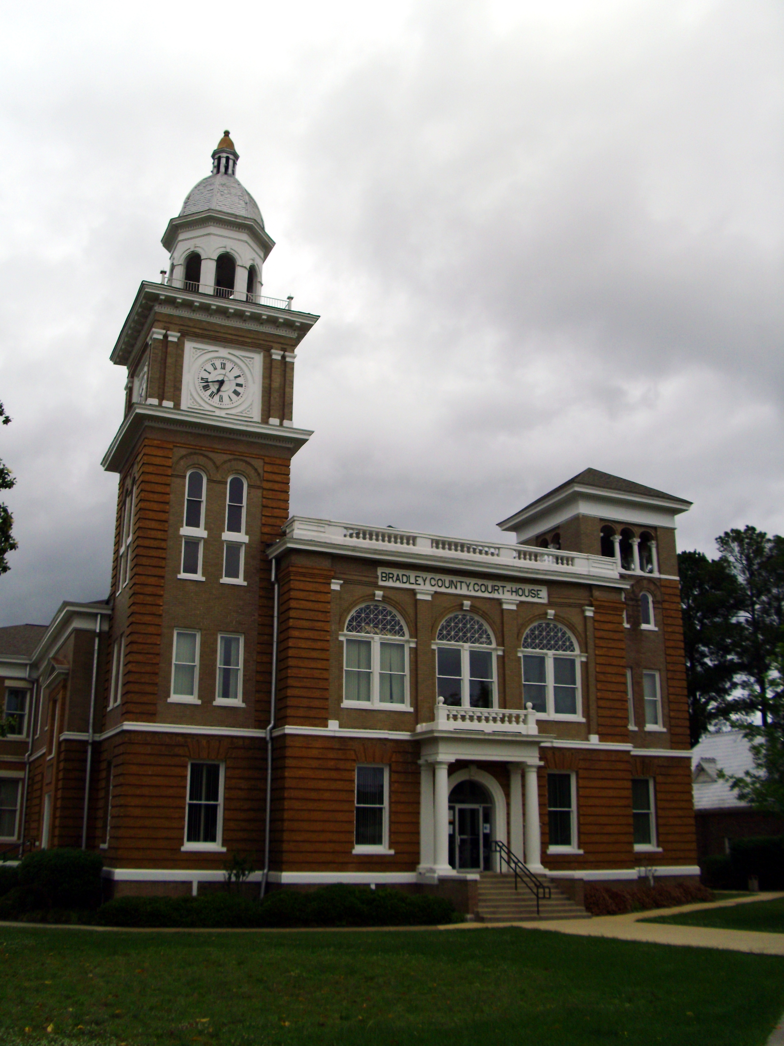 Facade